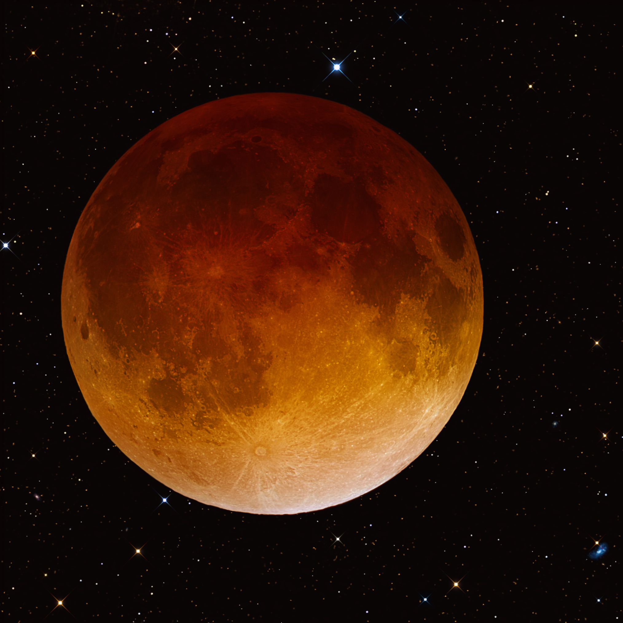 The total lunar eclipse took place on April 15, 2014. This 4 panel mosaic composite image was produced with an Officina Stellare PRO RC500 half meter telescope, an Apogee Alta U16M camera and Astrodon E-Series filters.